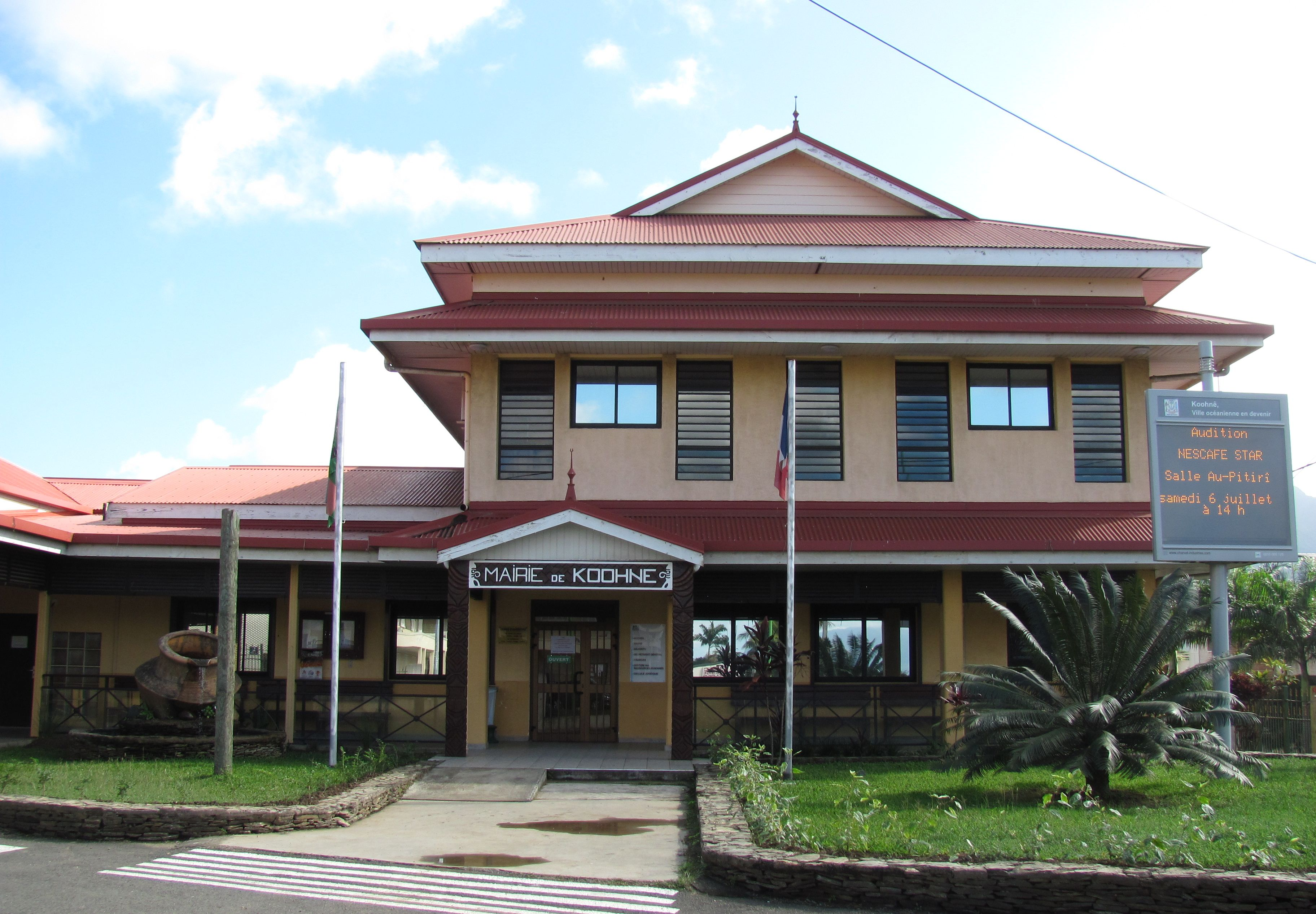 Town Hall (inaugurated in 2006), Koné, New Caledonia